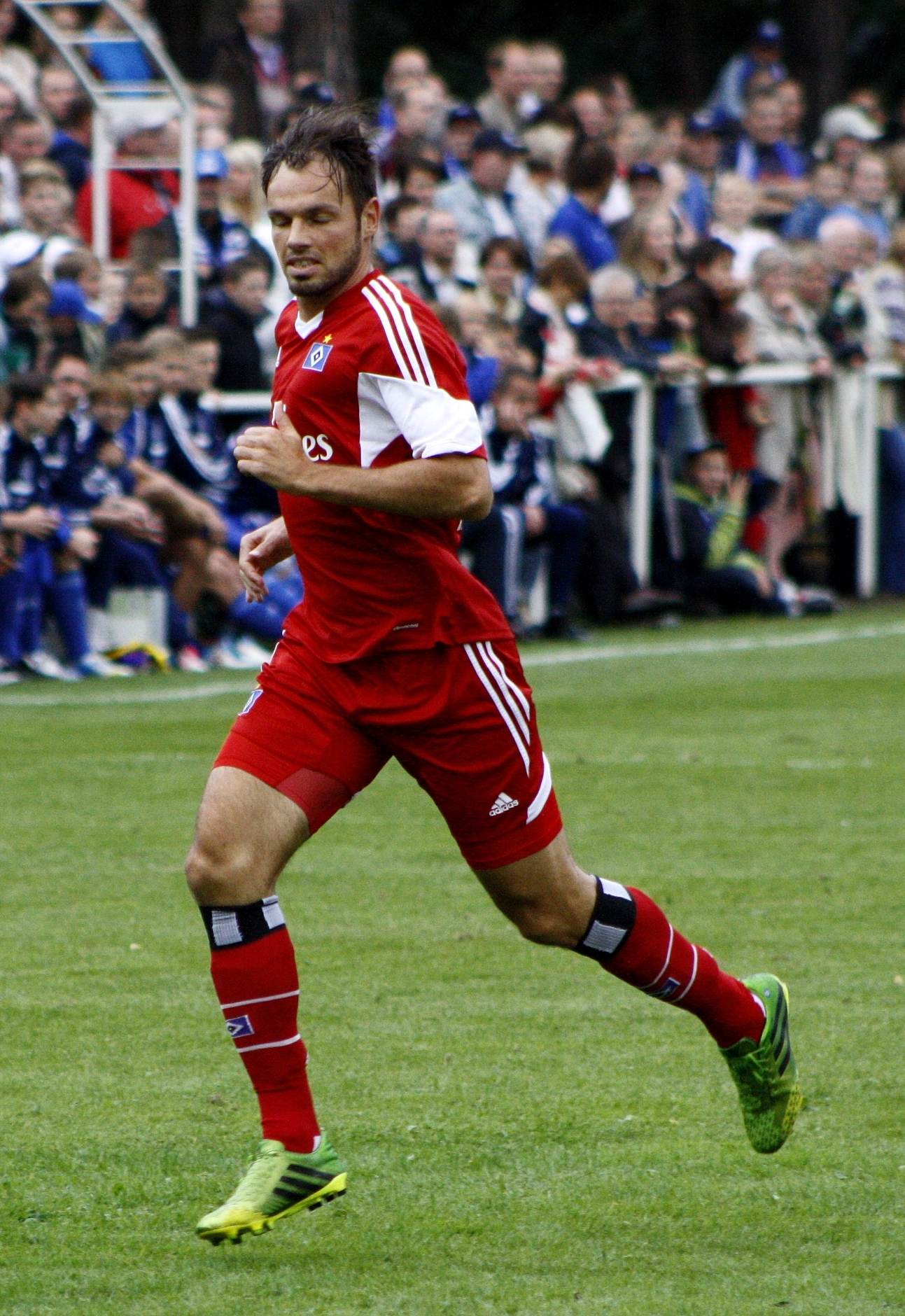 Heiko Westermann as HSV-Player (2013)